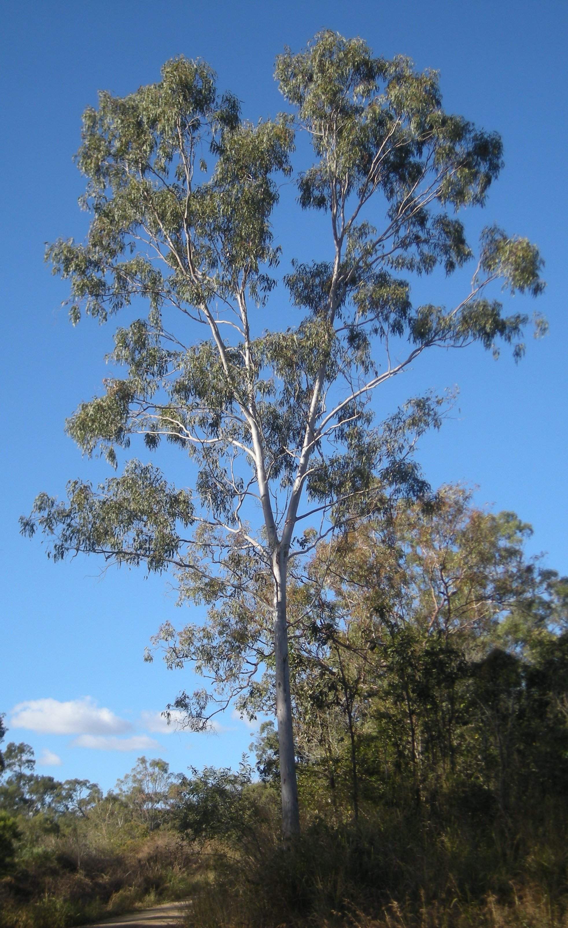 'Eucalyptus tereticornis tree